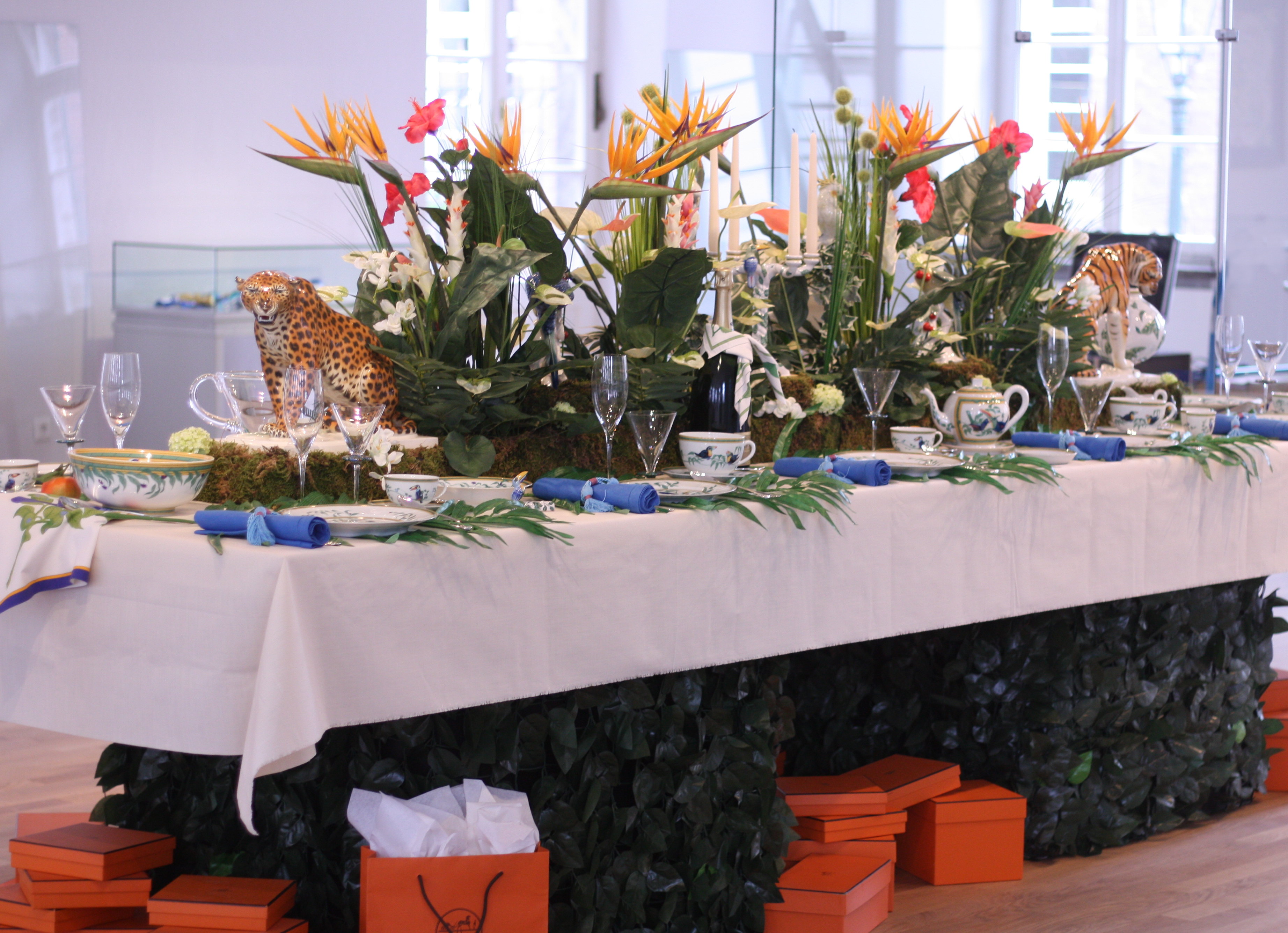 Tisch des Monats "Pique-nique Tropical avec Hermès Toucans" im HETJENS - Deutsches Keramikmuseum (2017)